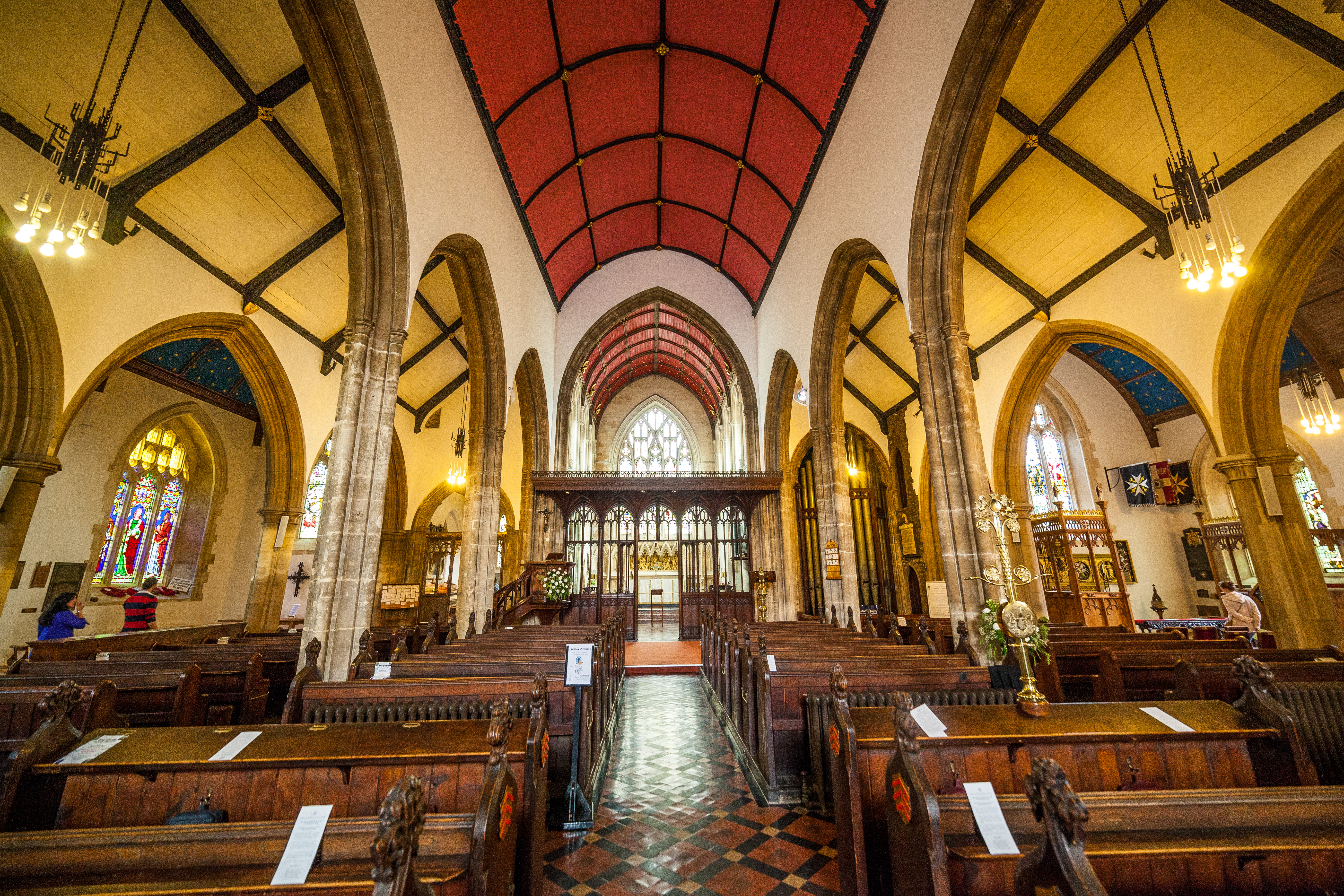 St John The Baptist City Parish Church